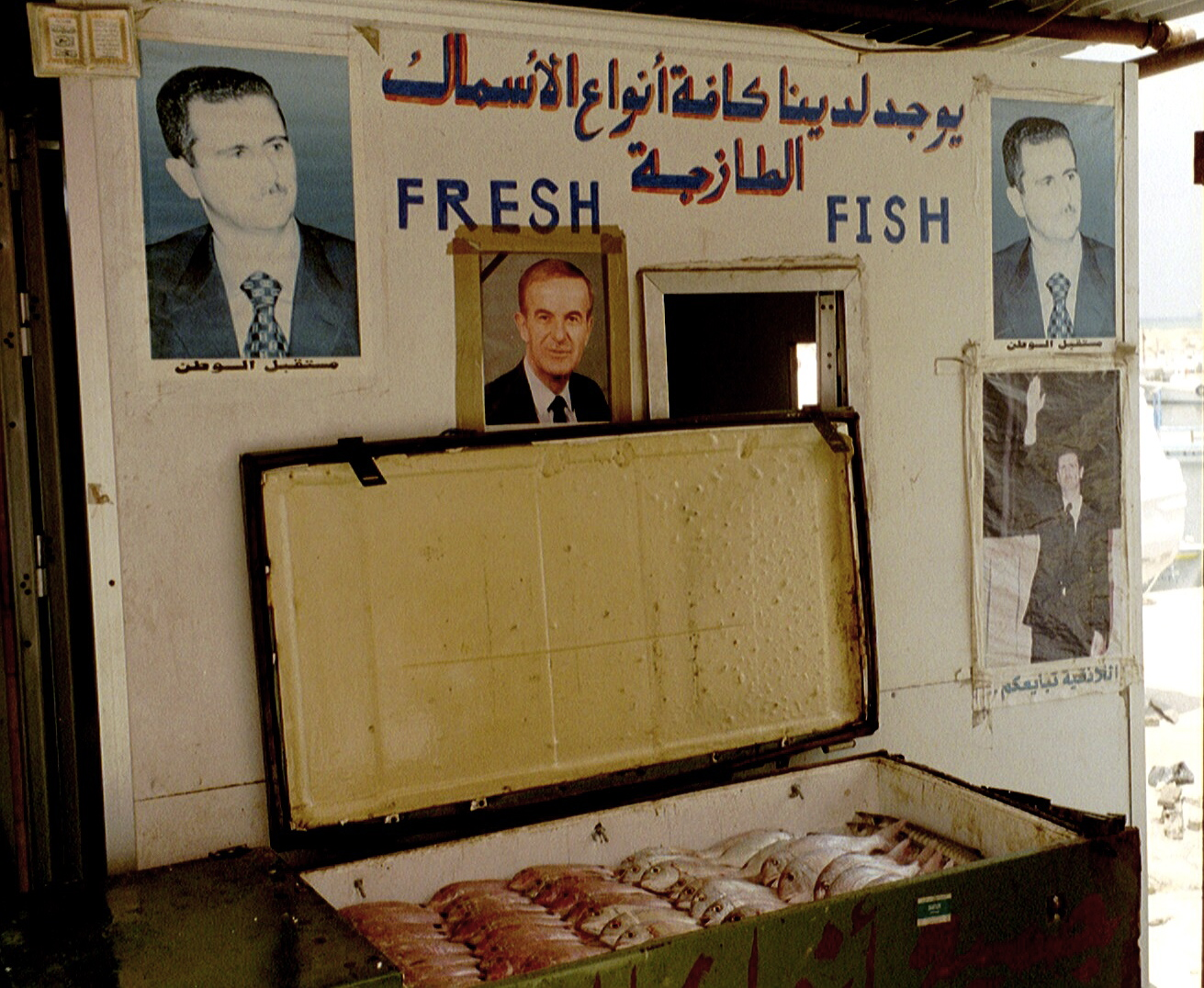 Tartus, Syria; Fresh fish for sale, June 2001. Picture taken by me in June, 2001, with an automatic Olympus mju:zoom140 camera.